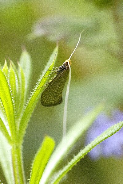 Picture taken in Commanster, Belgian High Ardennes . Species: Nematopogon adansoniella